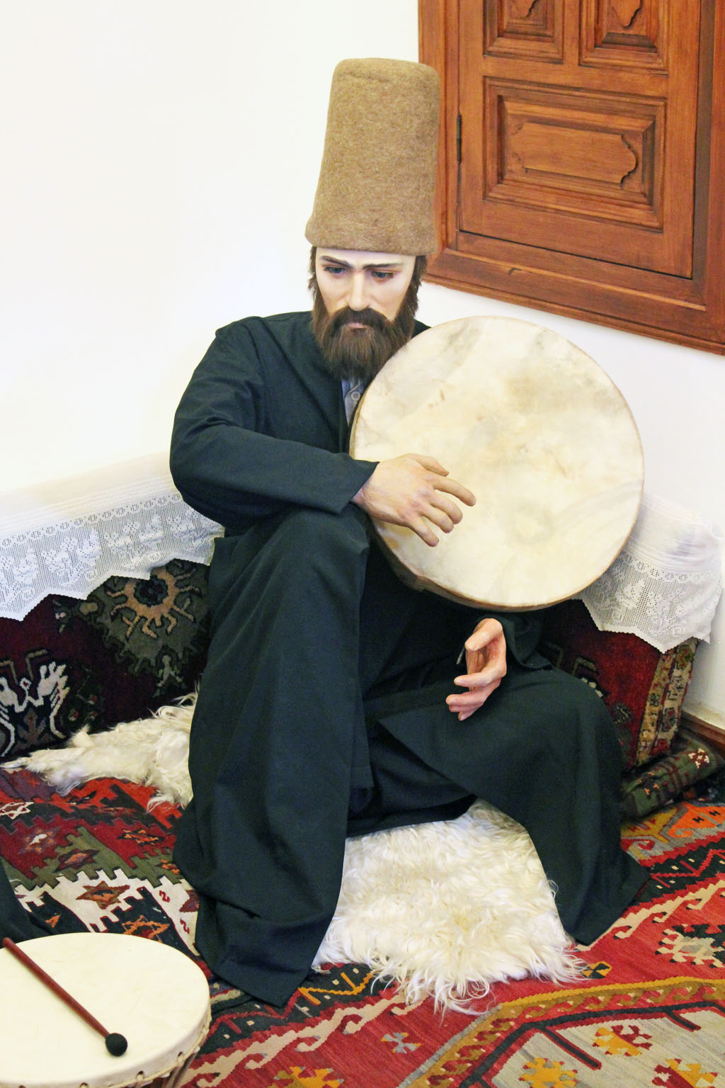 Dervish player of bendir, Mevlana Tekkesi monk's cell, Konya